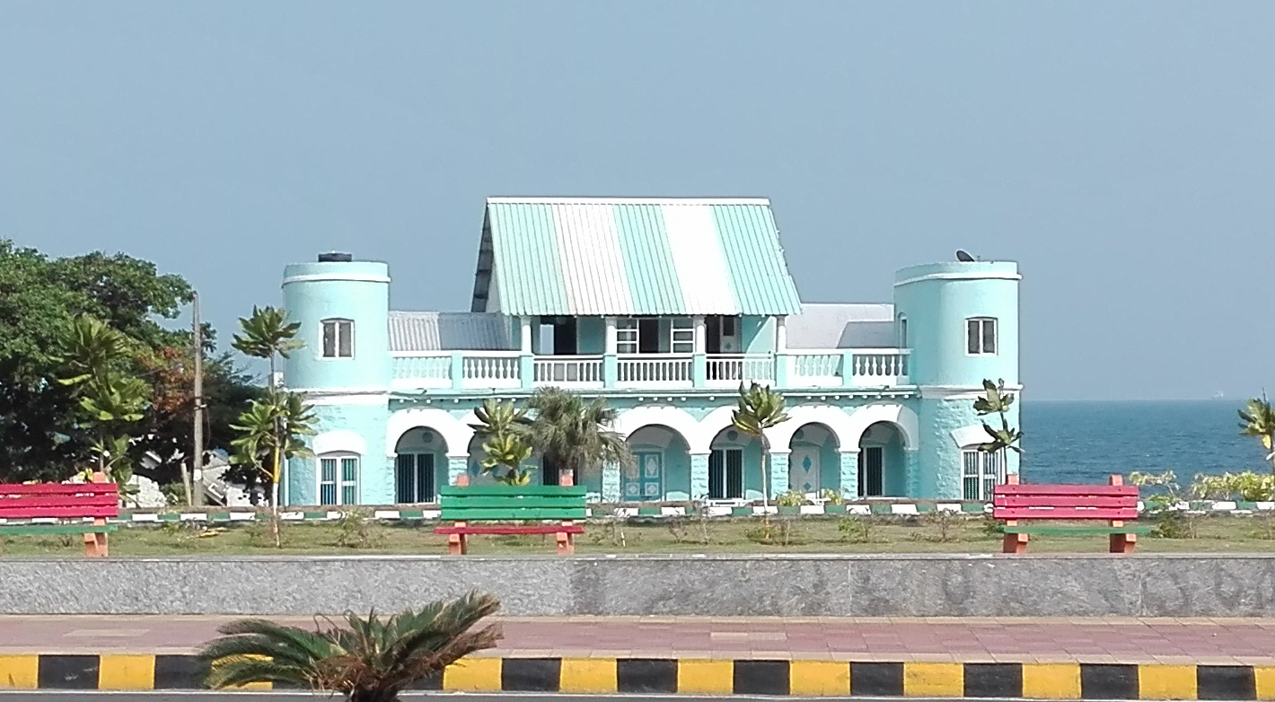 An old colonial style building on Beach road in Visakhapatnam